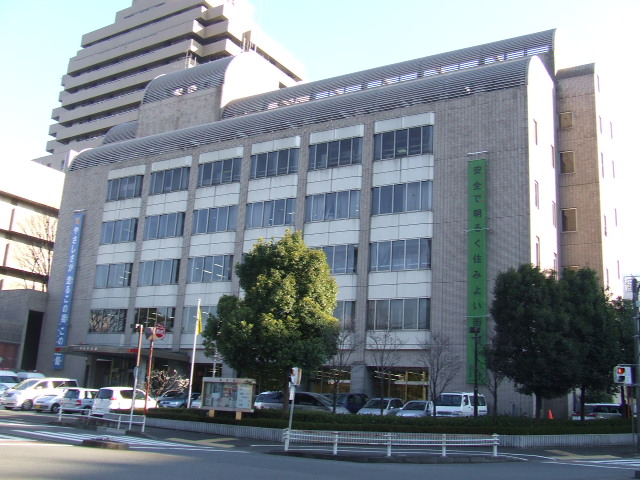 Building of Tama Chuoh Police Station,Metropolitan Police Department,Tama,Tokyo,Japan